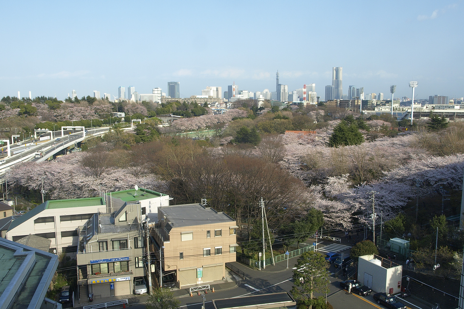 Mitsuzawa Park and cherry blossoms in Yokohama, Japan.